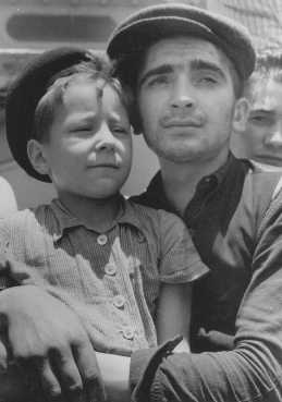 Eight-year-old Yisrael Meir (Lulek) Lau is held by a fellow Buchenwald survivor, Elazar Schiff, as they arrive in Palestine aboard the RMS "Mataroa." Haifa, Palestine, July 15, 1945.